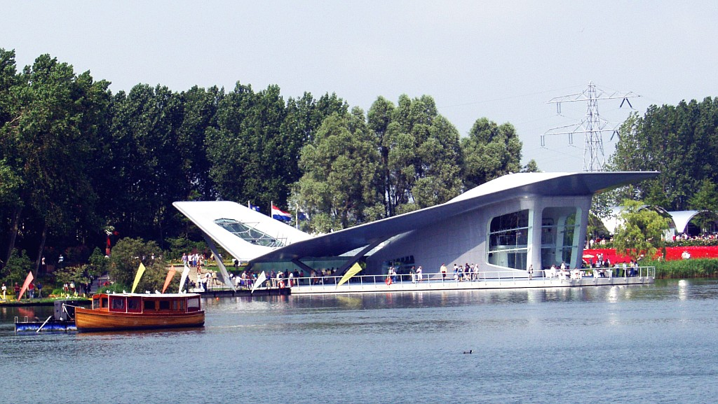 Impressions of Floriade 2002